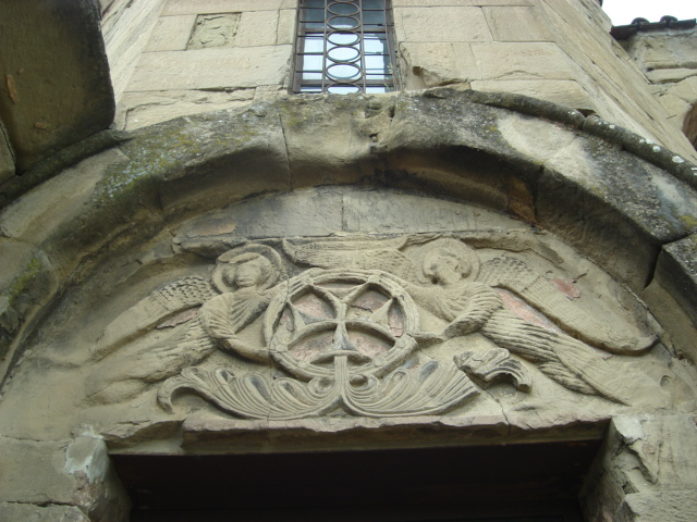 "Ascension of the Cross". Bas-relief from the Jvari Monastery, Mtskheta, Georgia.